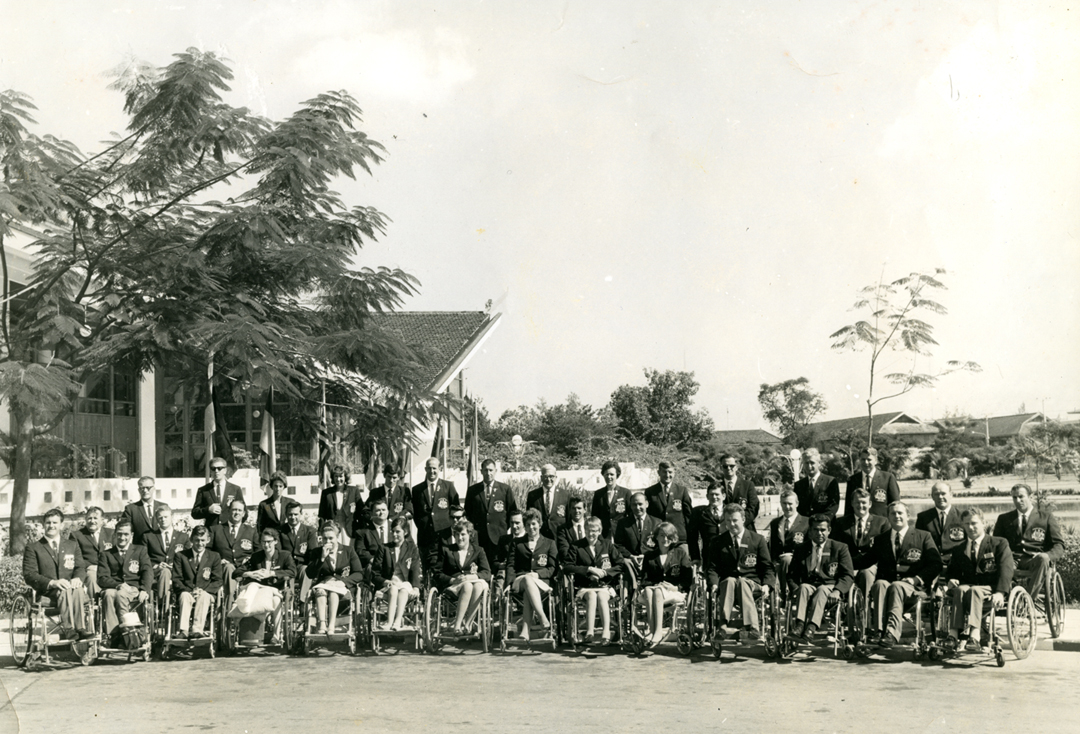 The 1968 Australian Paralympic team in Bangkok en route home from the Tel Aviv summer Paralympics